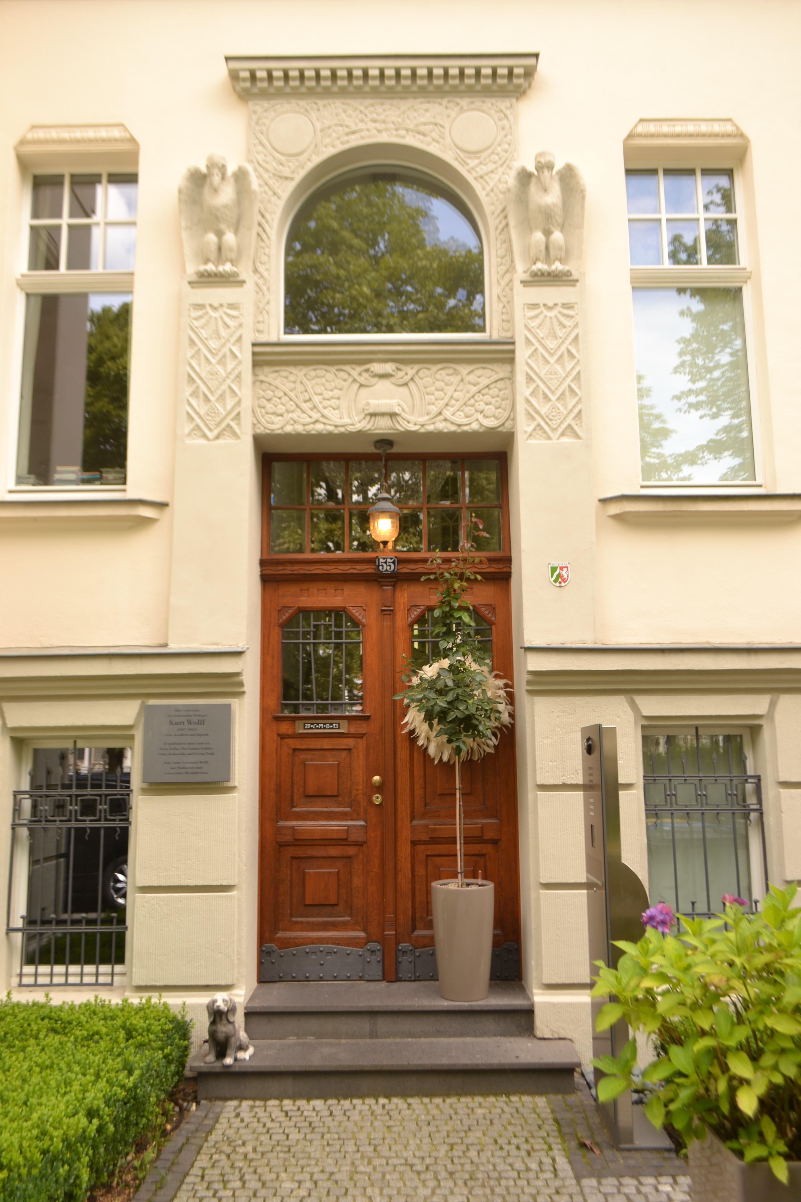 Entrance to Poppelsdorfer Allee 55 in Bonn, Germany, living place of Kurt Wolff.